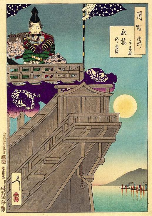 Works on Paper-Prints